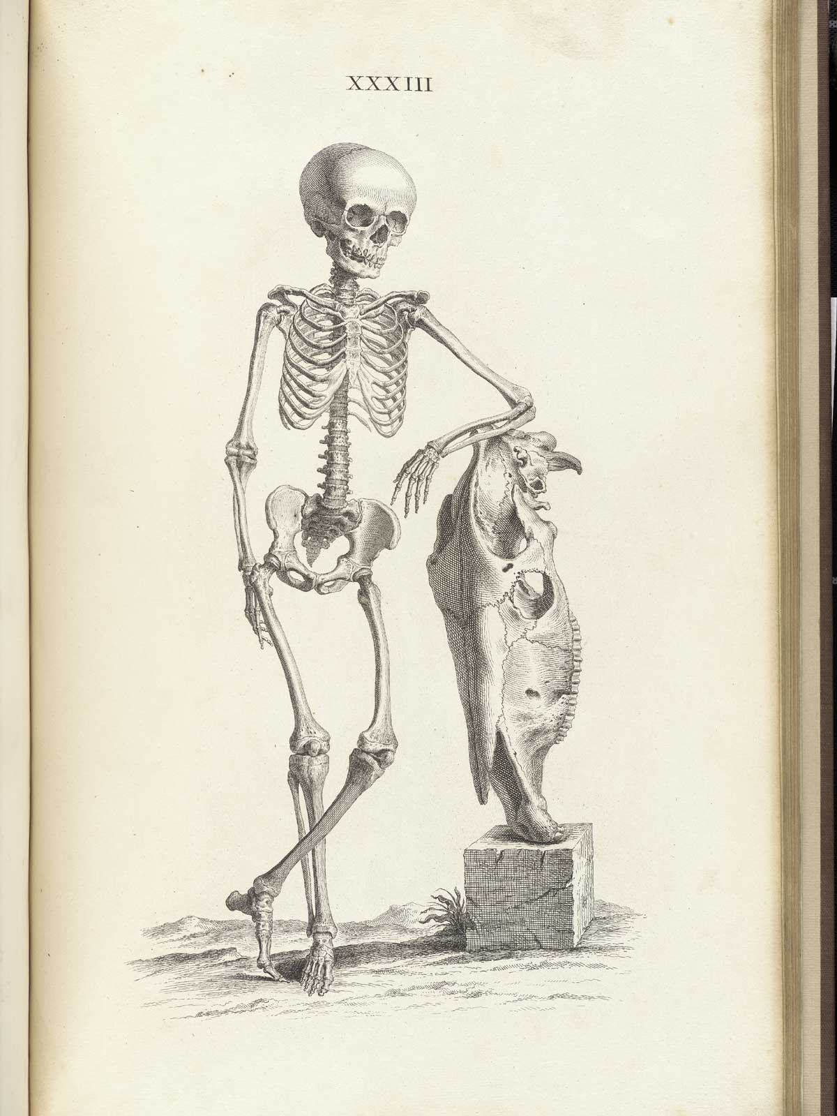 Plate XXXIII of William Cheselden's Osteographia, NLM.